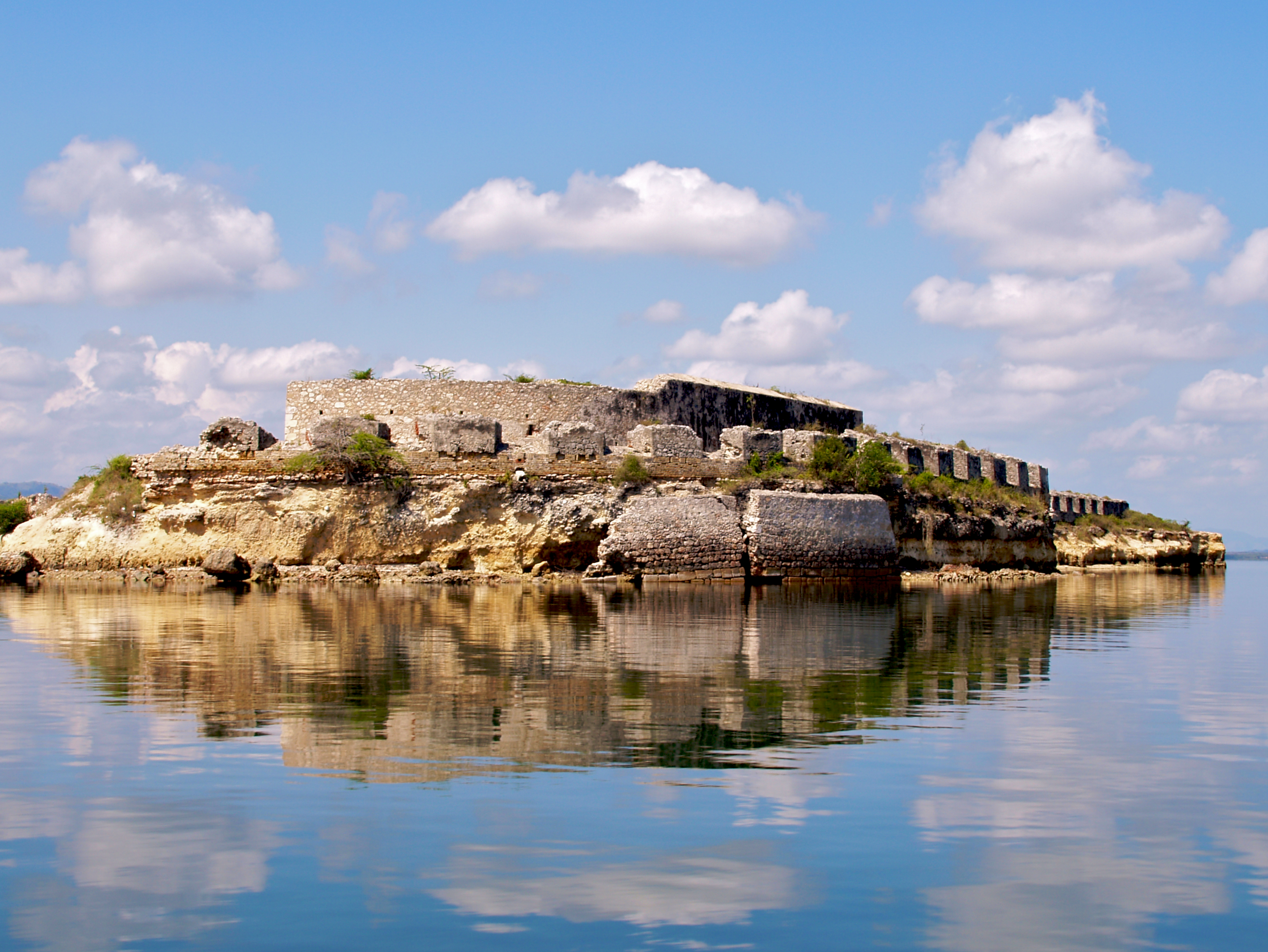 Fort Saint Joseph - Fort Liberte (Looking South)